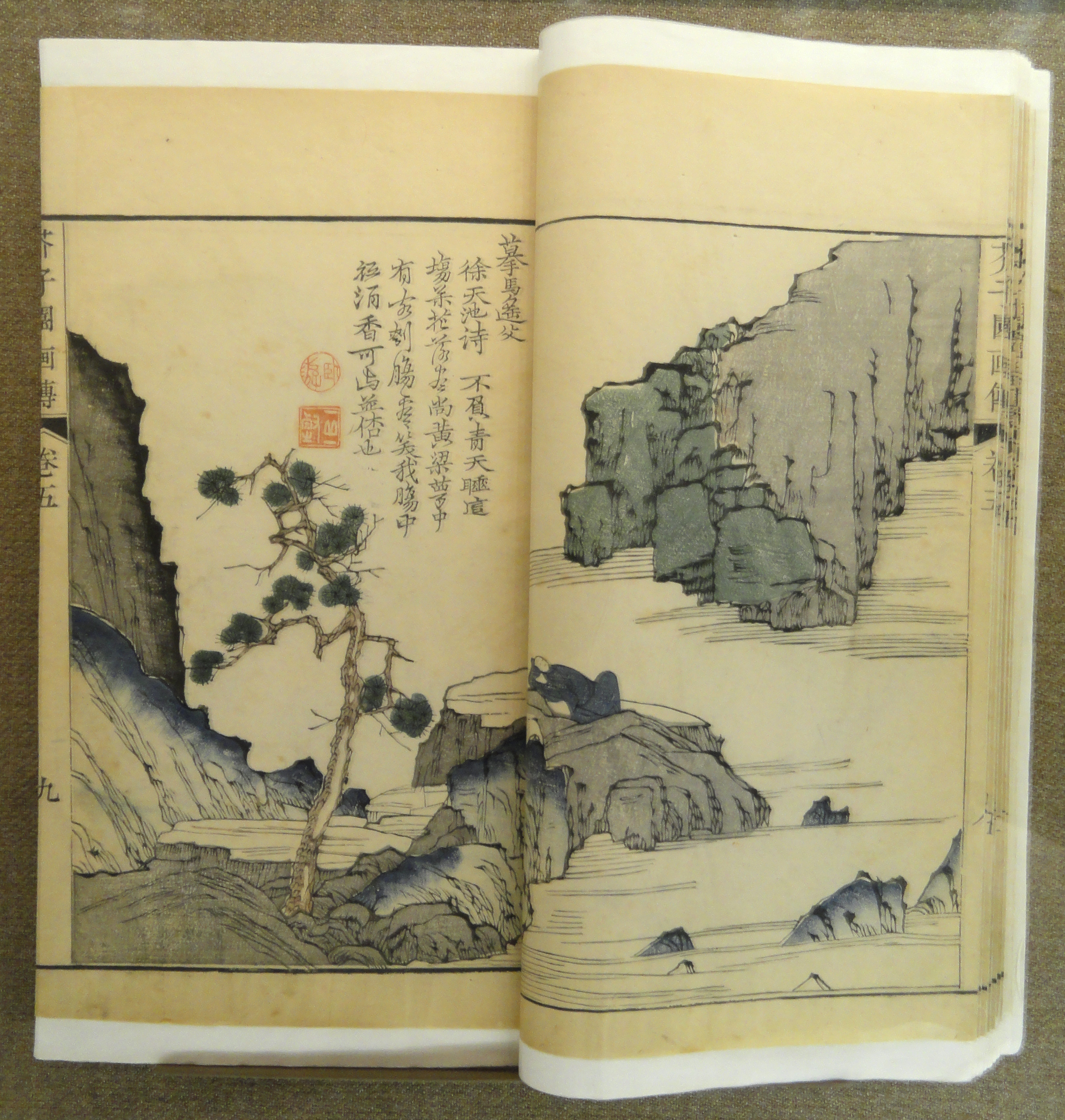 Exhibit in the Nelson-Atkins Museum of Art, Kansas City, Missouri. This artwork is old enough so that it is in the public domain, and the museum permitted photography without restriction. I took this photograph and release it into the public domain.